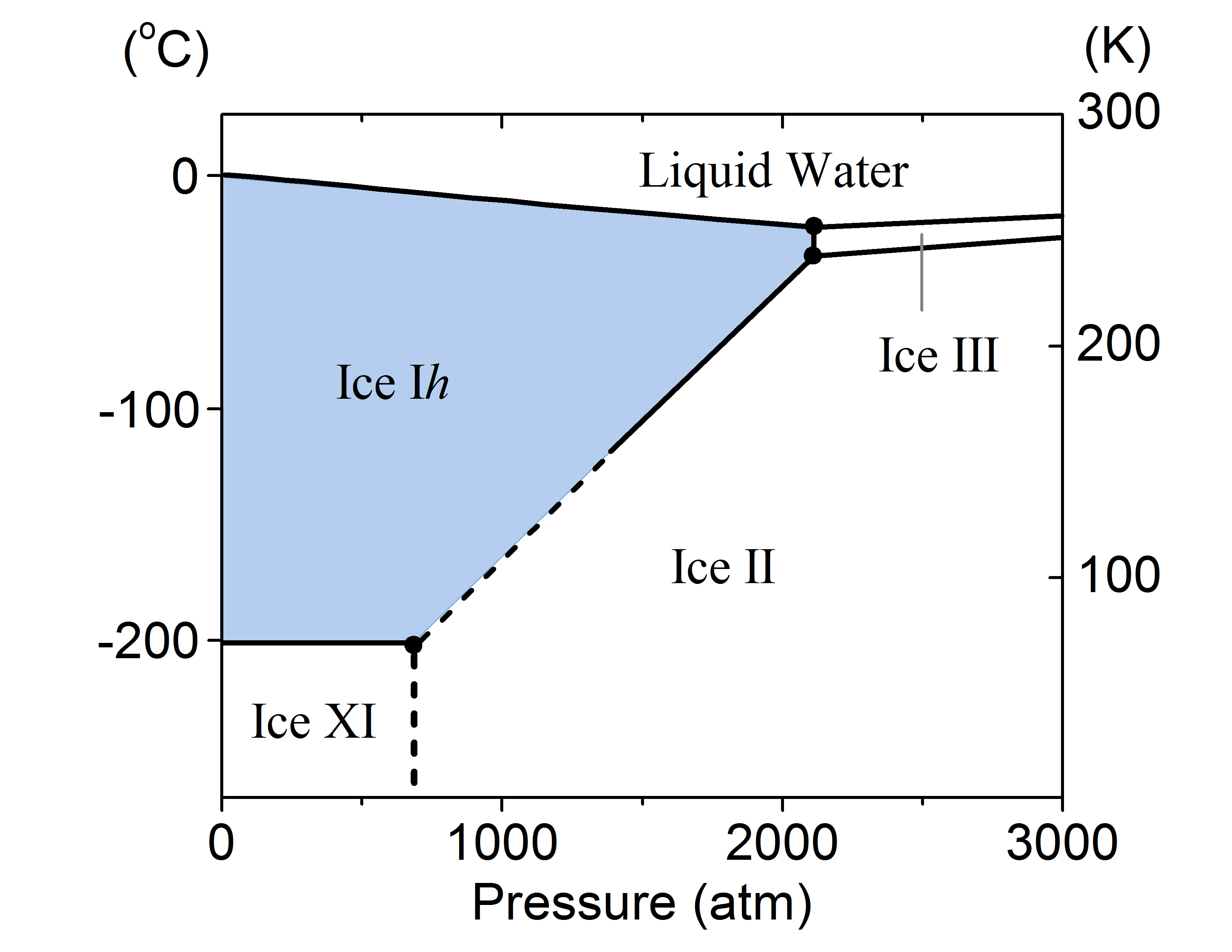 Phase space of Ice Ih in the phase diagram of ice.